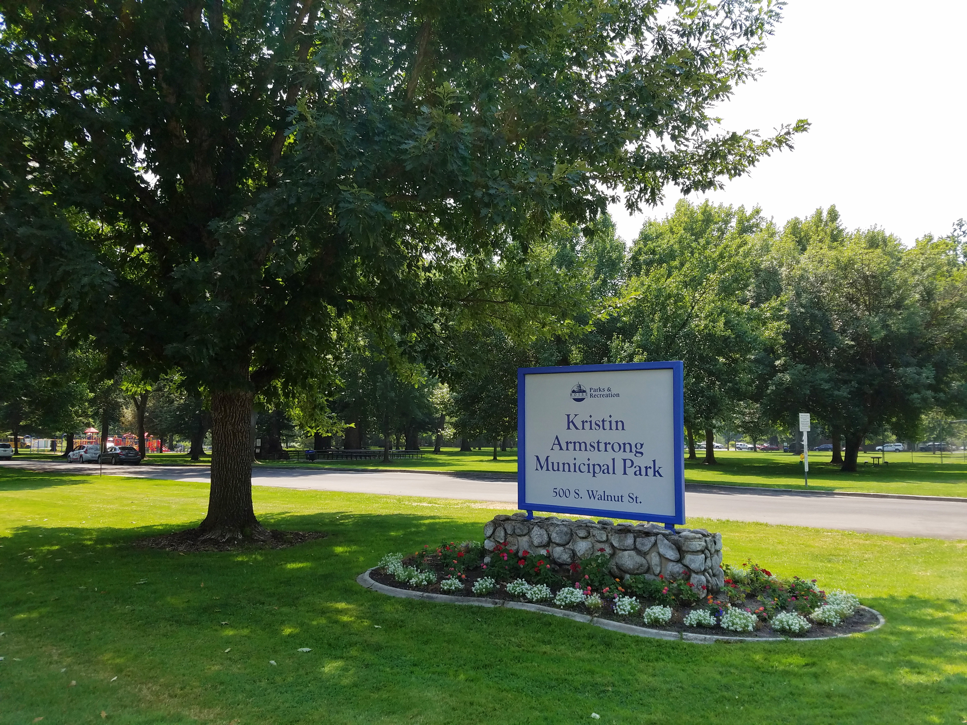 Kristin Armstrong Municipal Park in Boise, Idaho, was named for Olympic gold medalist and former professional athlete Kristin Armstrong.